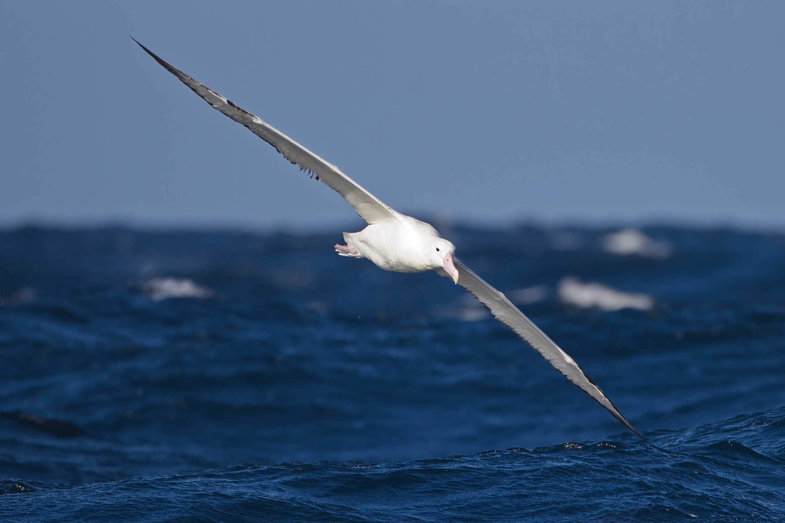 Southern Royal Albatross (Diomedea epomophora) in flight, East of the Tasman Peninsula, Tasmania, Australia